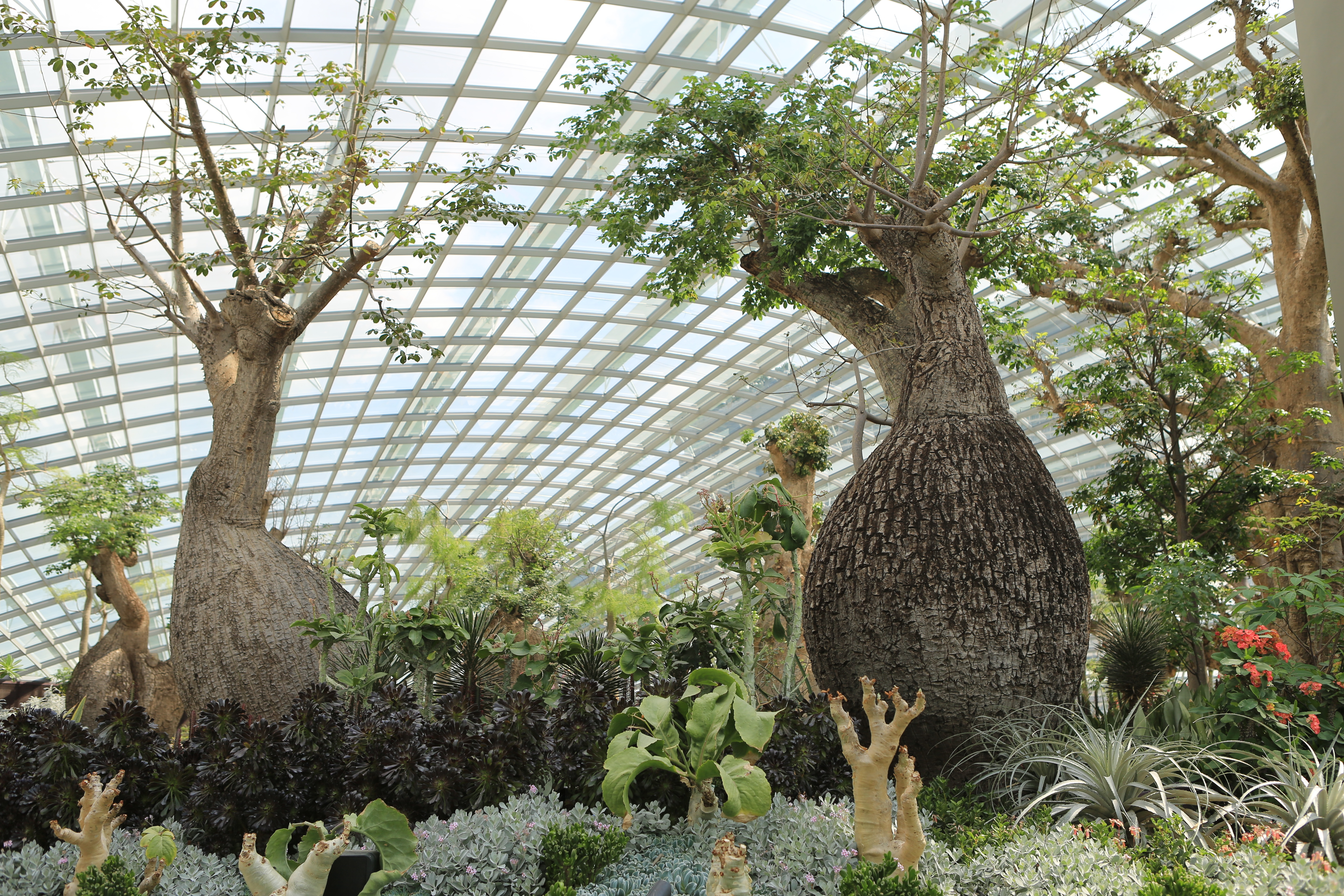 Drunken trees (Ceiba chodatii) in the Baobab and Bottle Tree Garden in the Flower Dome at Gardens by the Bay, Singapore.